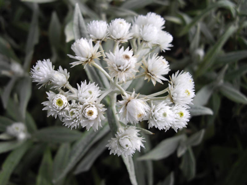 Anaphalis triplinervis